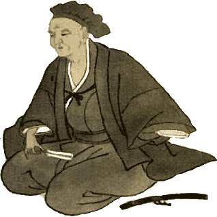 Murata Jukō, creator of the Japanese tea ceremony.